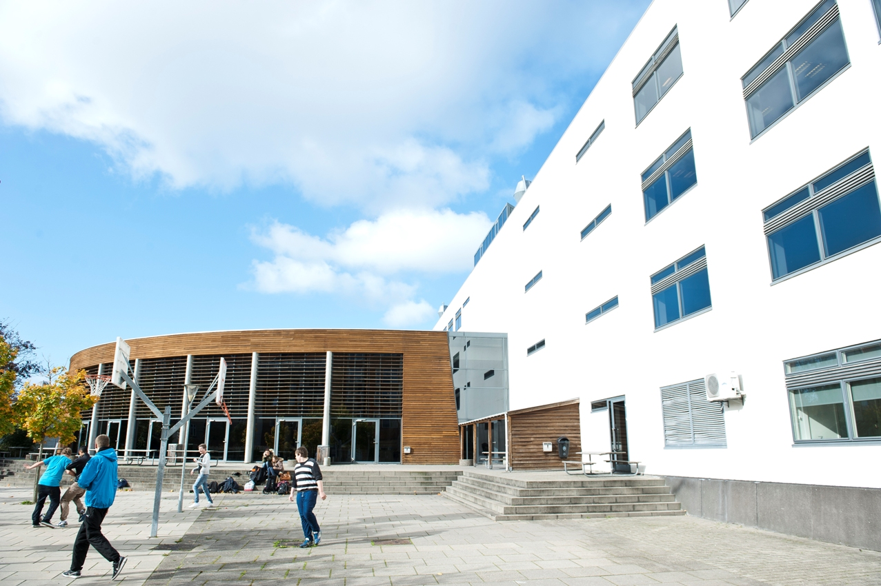 Aalborg Business CollegeDansk: Aalborg Handelsskole